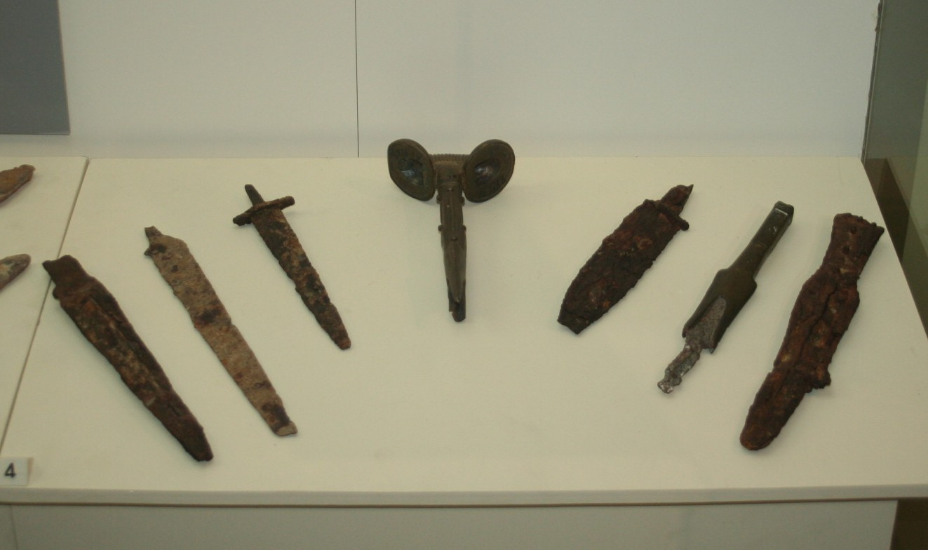 Bronze sword handles and iron swords from Gazakh and Mingachevir (Albania, 3rd c BC - 8th c AD)